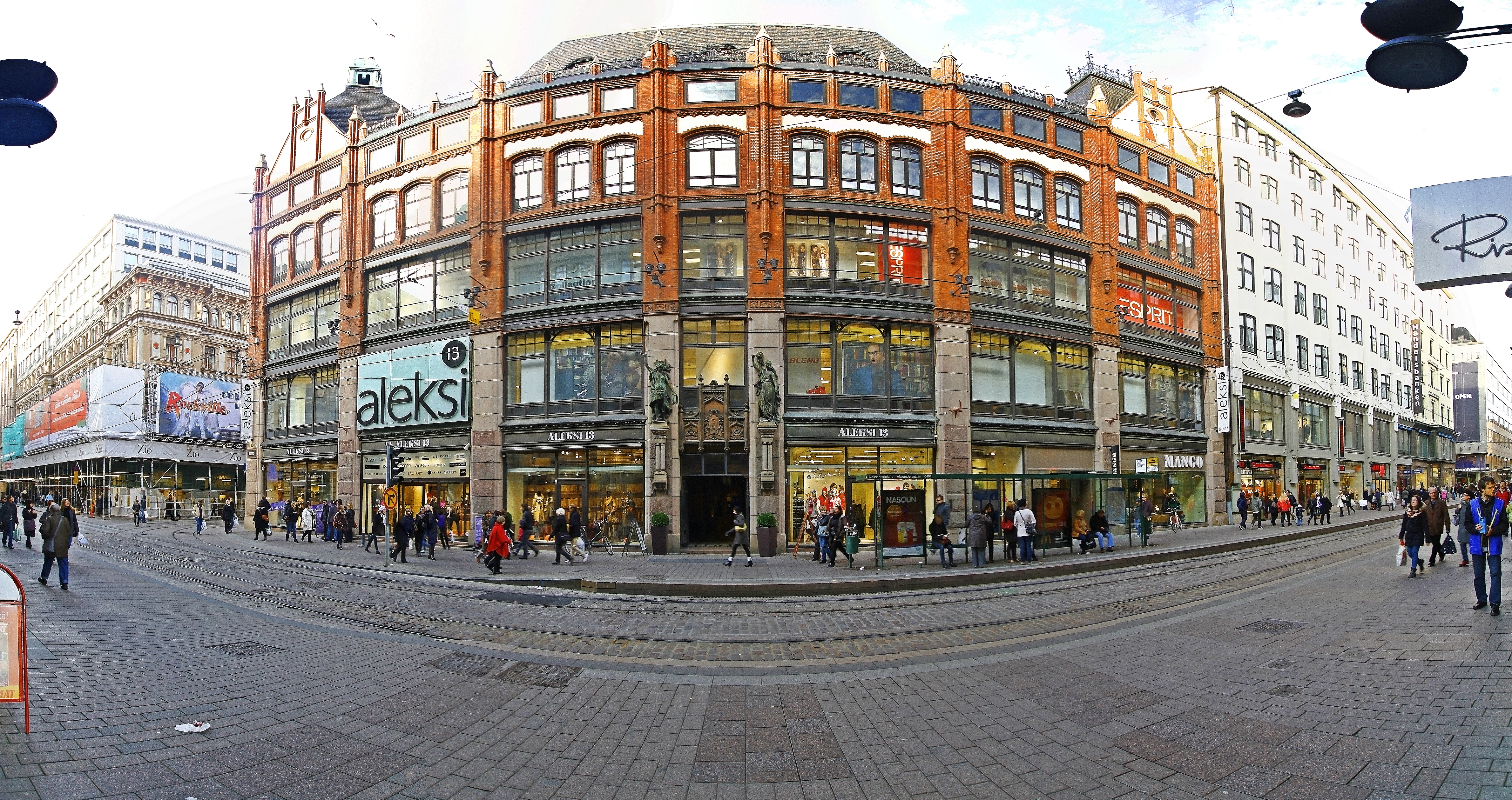 A Panoramic view of the Aleksi 13 department store, on Aleksanterinkatu 13 in downtown Helsinki